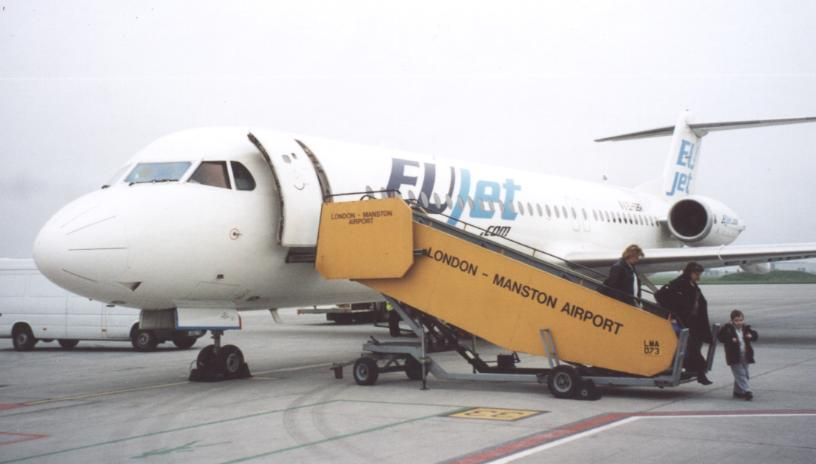 Fokker 100 of EU Jet at Manston Airport, Kent, England